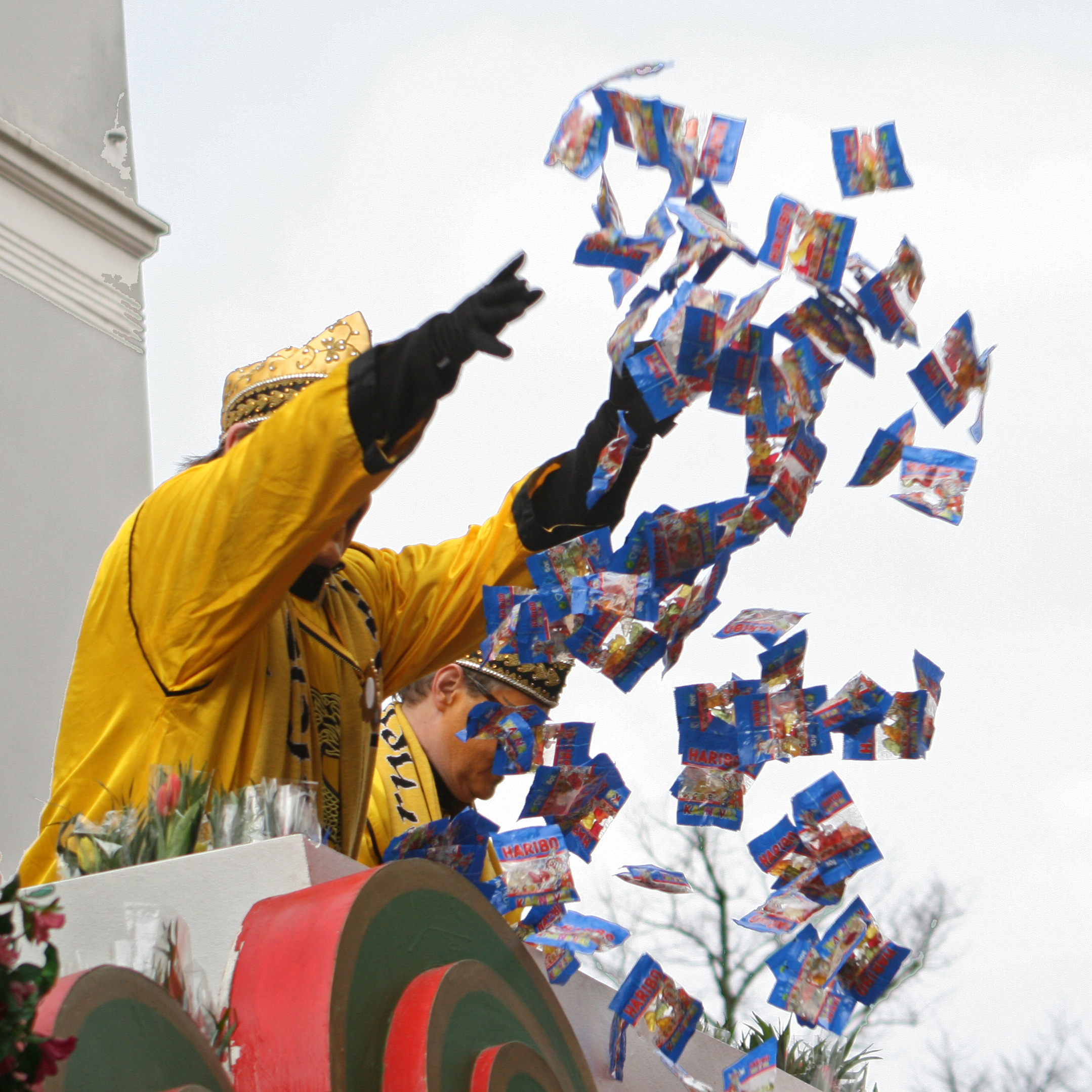 Kamelle (Sweets) thrown at a Carneval-Parade in Cologne